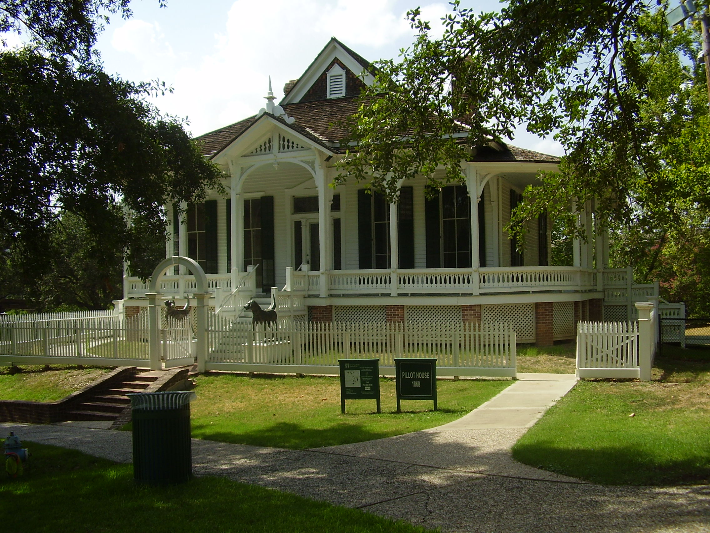 Pillot House - 1868